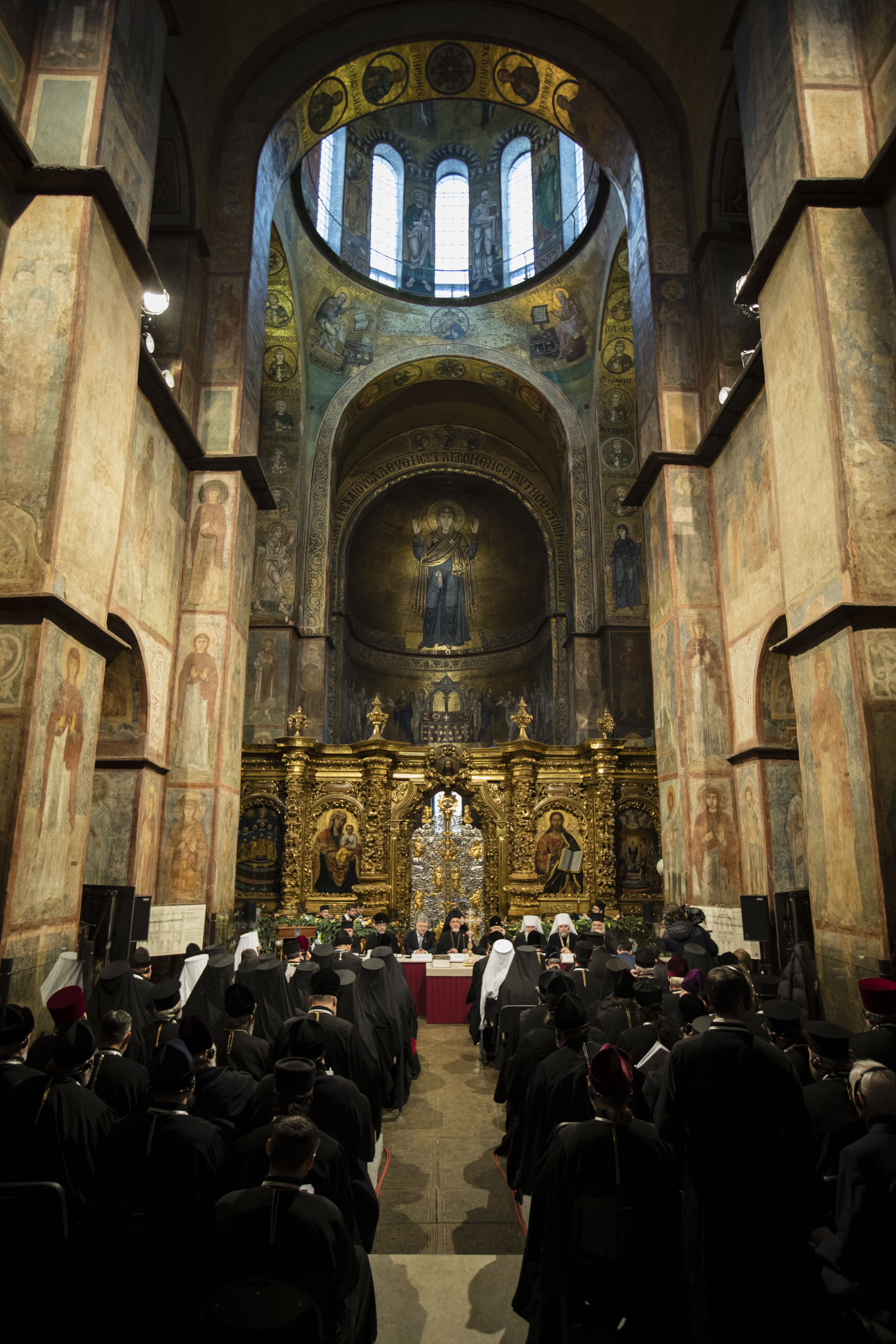 Unification council of Orthodox Church in Ukraine